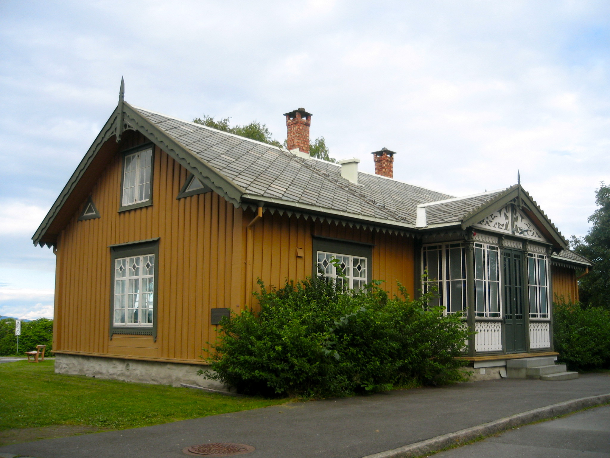 Gløshaugen Østre, now part of Campus NTNU Gløshaugen, Trondheim. Built 1872 as a summer house for merchant Halvor Jenssen. Architect probably Heinrich Ernst Schirmer